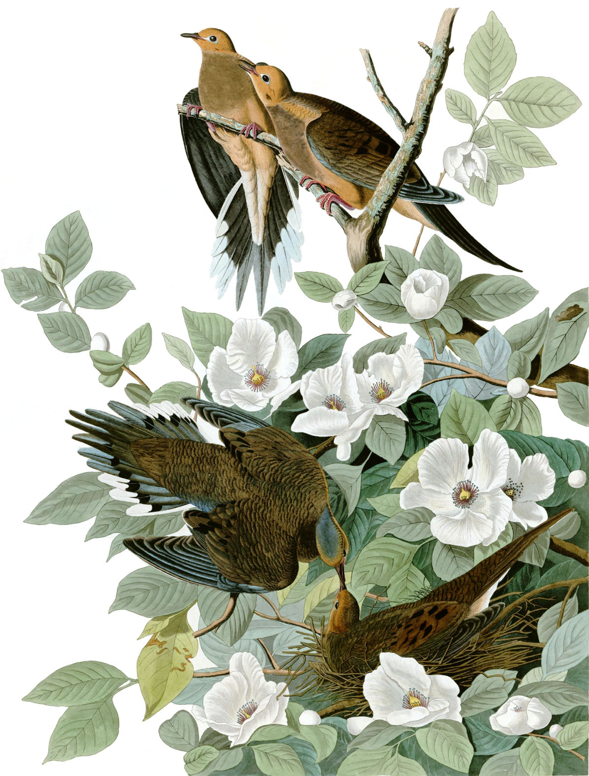 Mourning Dove , Zenaida macroura, hand-colored engraving/aquatint